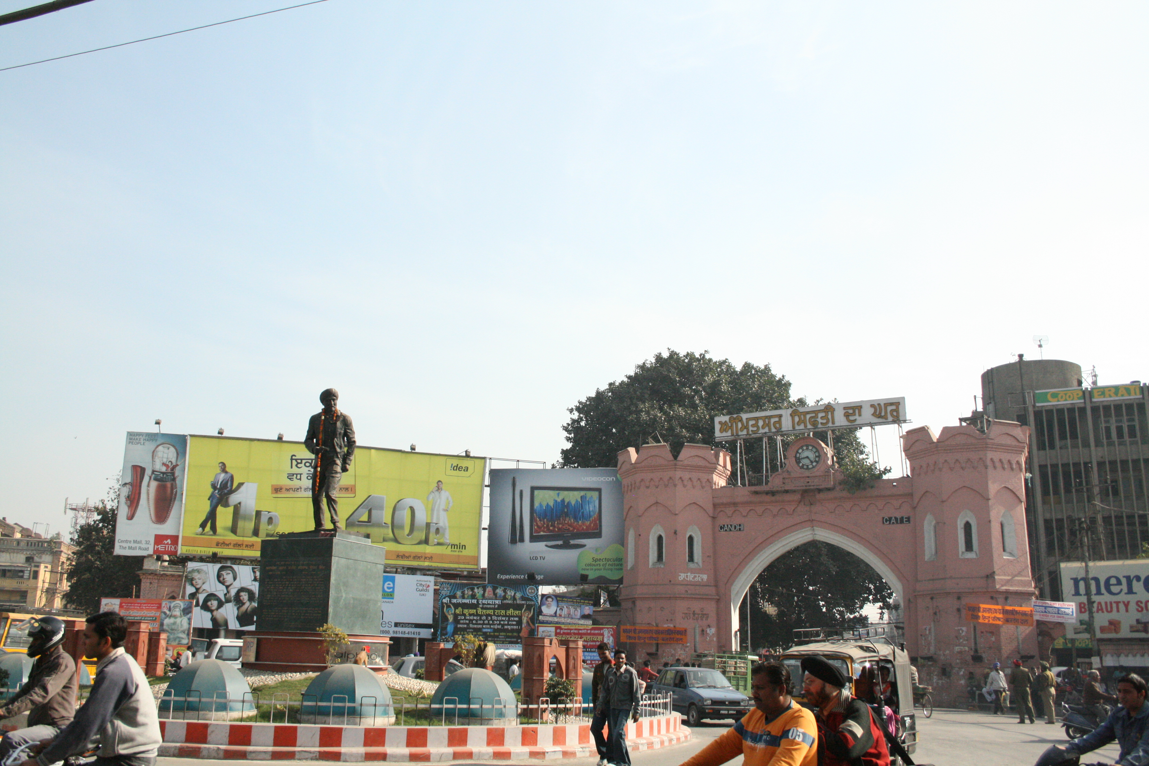 Amritsar, India